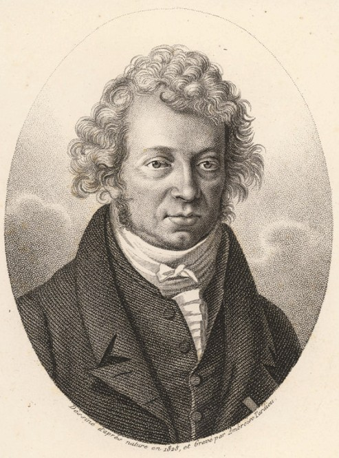 Engraving of André-Marie Ampère (1775 – 1836), the noted French physicist